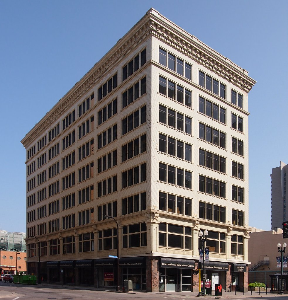 Lincoln Bank Building, 730 Hennepin Ave., Minneapolis, Minnesota, USA. Viewed from the south, timed to avoid traffic and pedestrians in foreground. Corrected for tilt distortion.